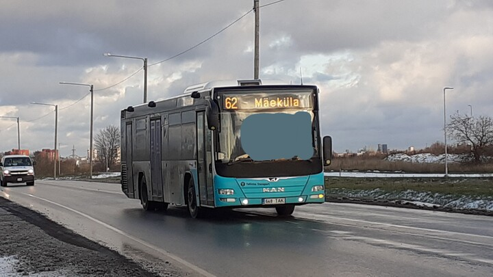 Liin 62,MAN A78 Lion's City LE EL293 #2648,Paldiski maantee